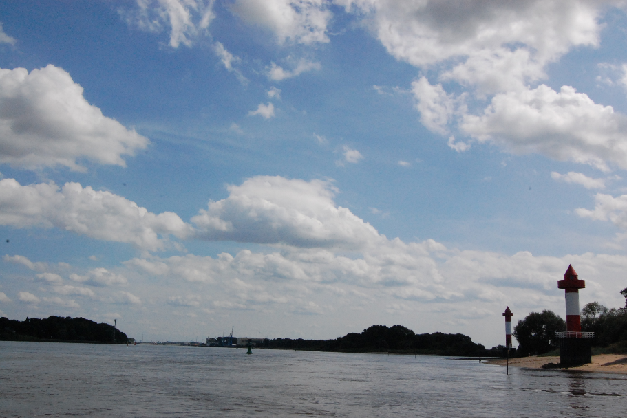 East-bound view along the Weser south of Bremen-Farge